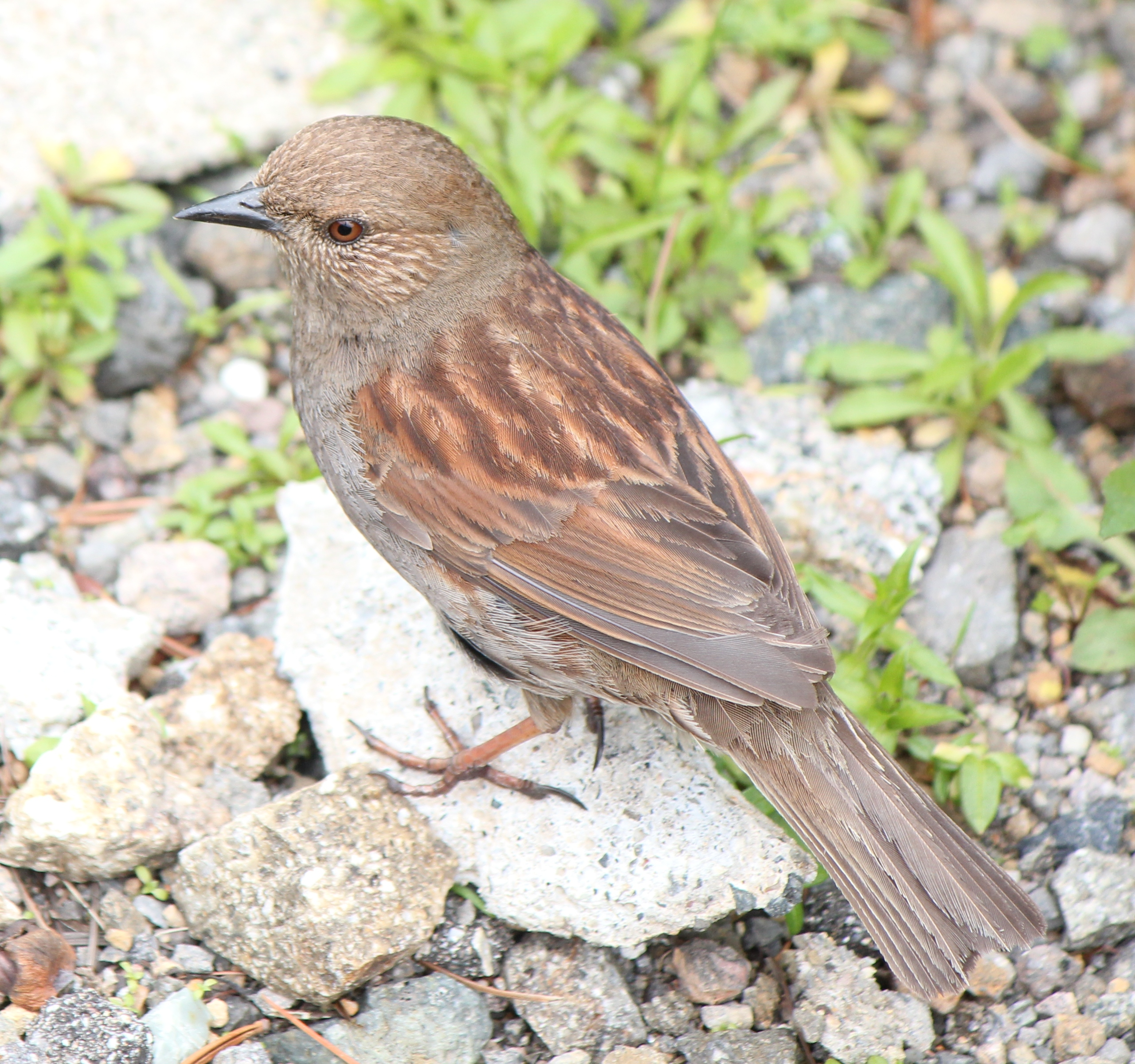 Prunella rubida (Japanese accentor), in Mount Norikura, in Gifu pref., Japan.